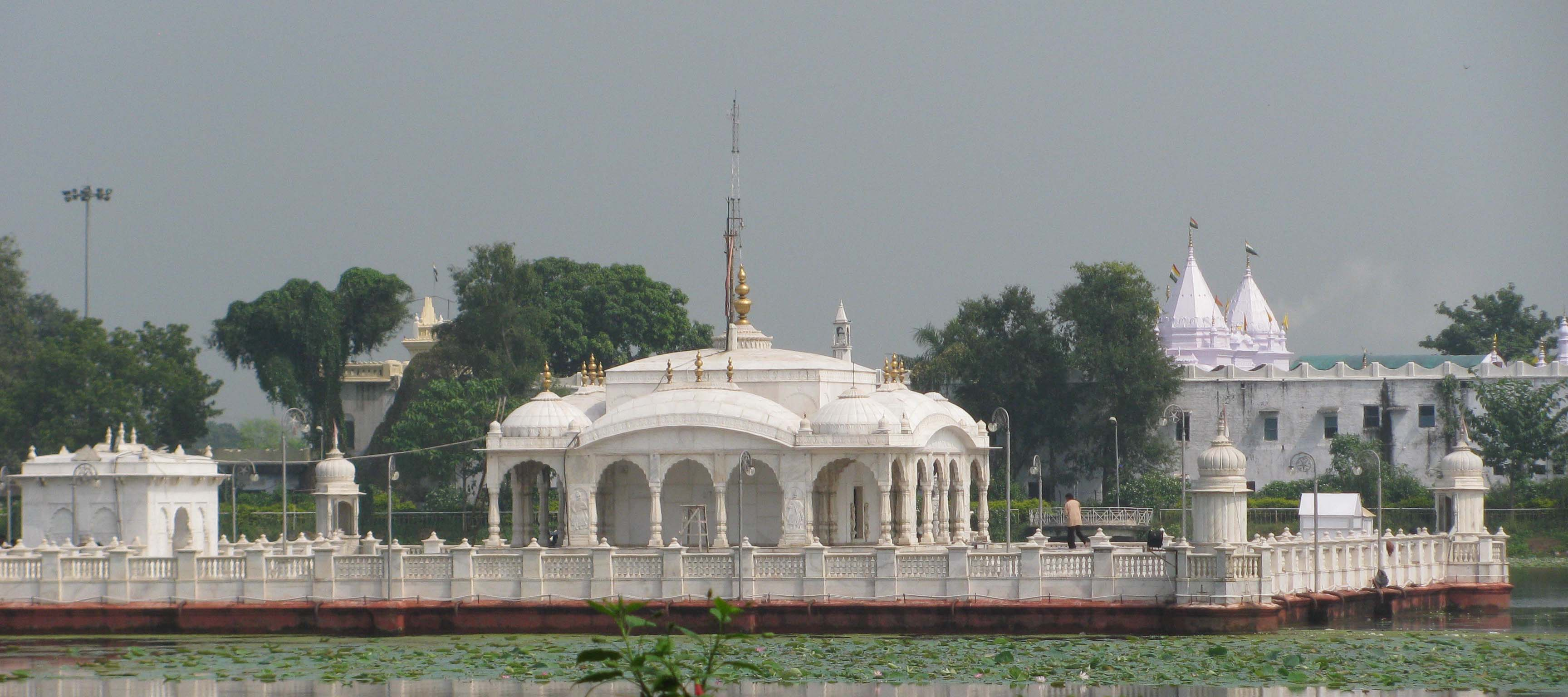 This is near Rajgir ,a historic place